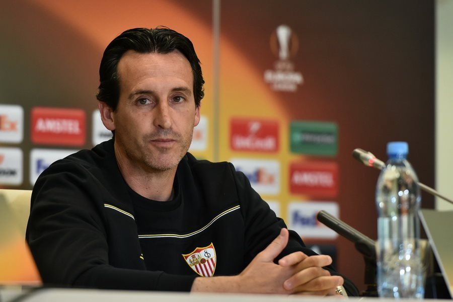 Unai Emery